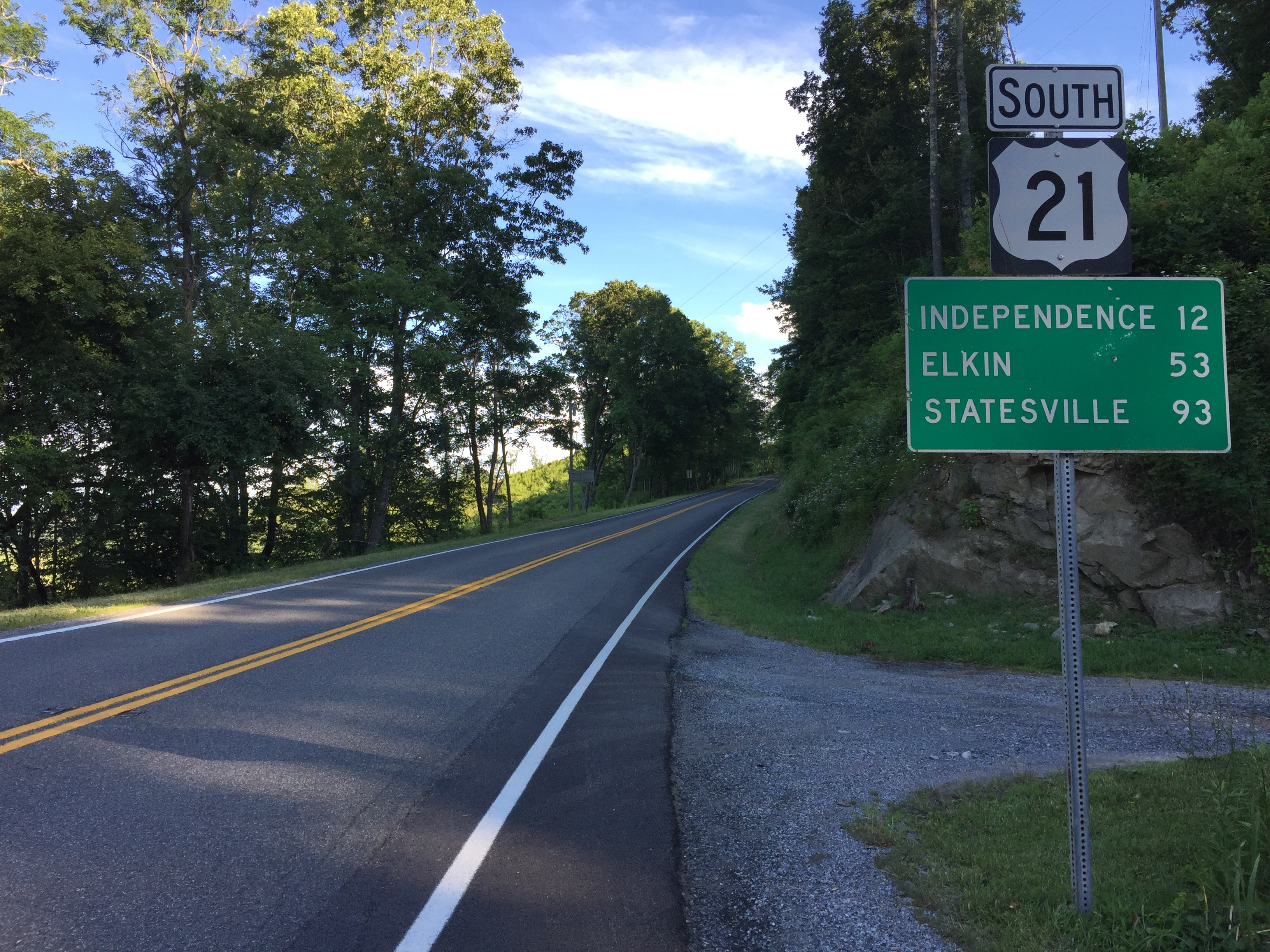 View south along U.S. Route 21 (Elk Creek Parkway) at Spring Valley Road (Virginia State Secondary Route 805) in northern Grayson County, Virginia